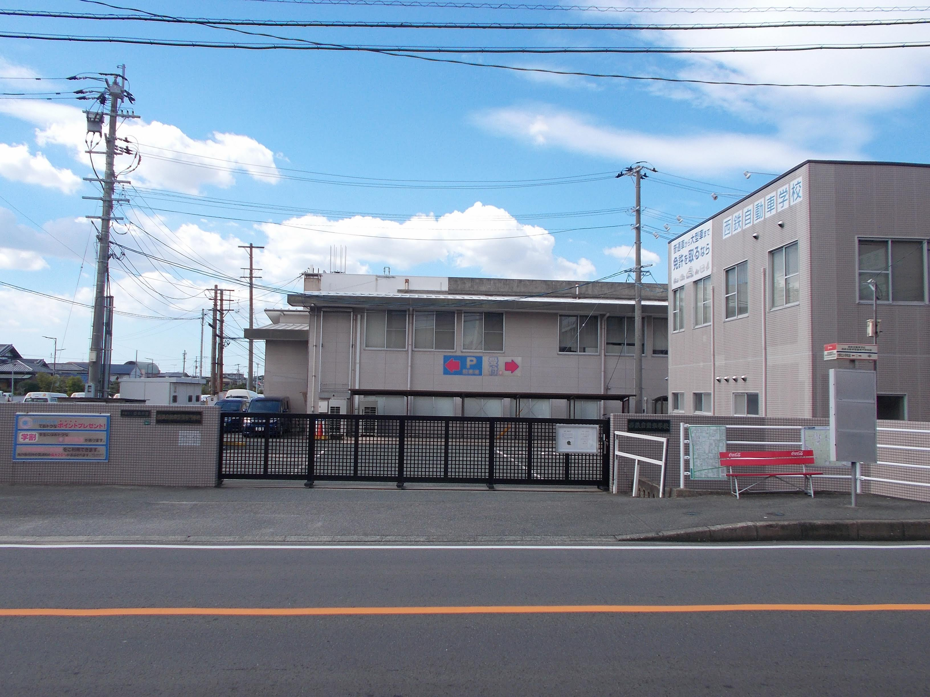 Nishitetsu Driving School, Onojo, Fukuoka, Japan